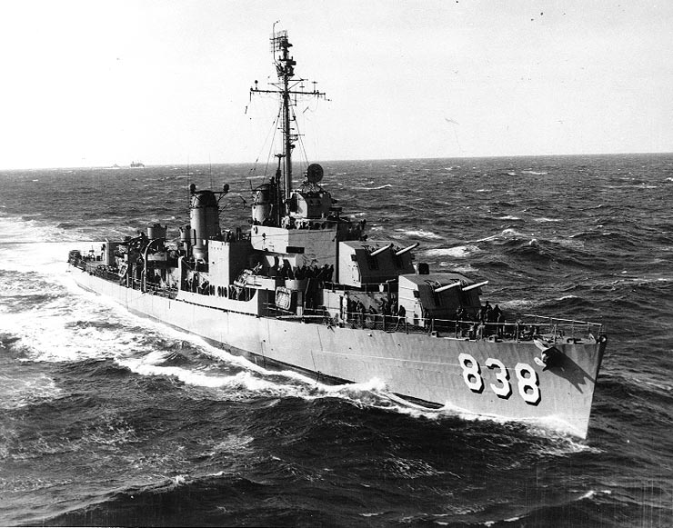 The U.S. Navy destroyer USS Ernest G. Small (DD-838), alongside the aircraft carrier USS Leyte (CV-32), not visible, to transfer mail, during operations in Korean waters, 17 November 1950.